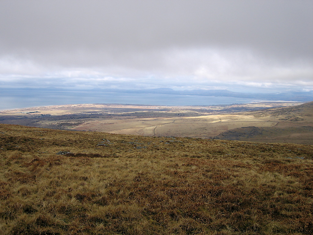 Ardudwy from the Diffwys ridge Ardudwy is the landscape between the Rhinogydd and the sea. To this day, there is no road across the ridge; traffic goes either round the north (Maentwrog) or south (Abermaw/Barmouth). A number of ancient trackways cross the hills at passes such as Bwlch Rhiwgyr, Bwlch Drws Ardudwy and Bwlch Tyddiad.